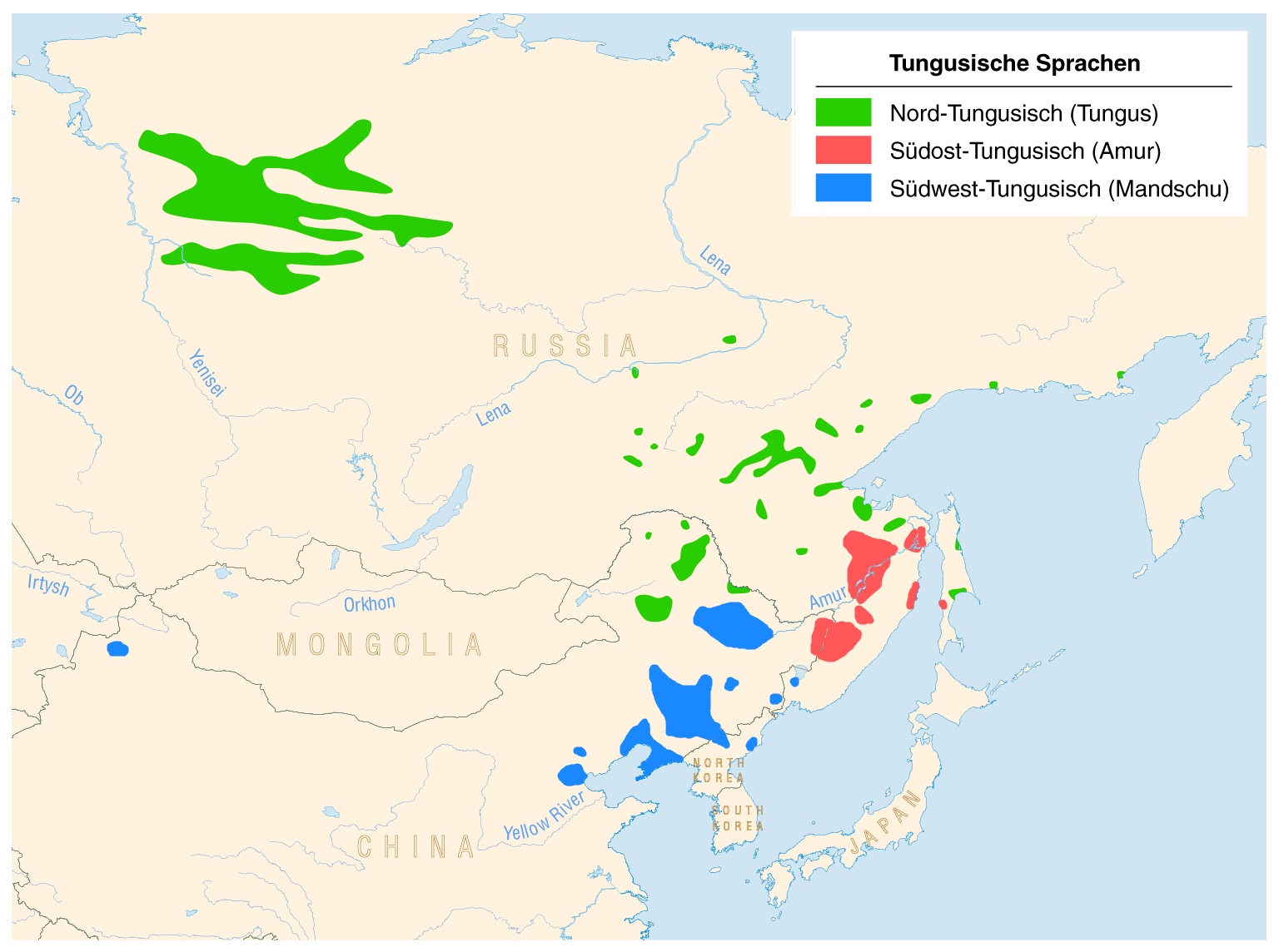 Linguistic maps of the Tungusic languages